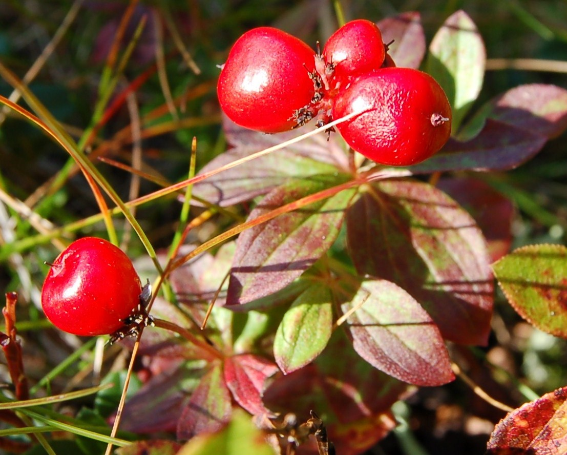 Eurasian Dwarf Cornel or Bunchberry